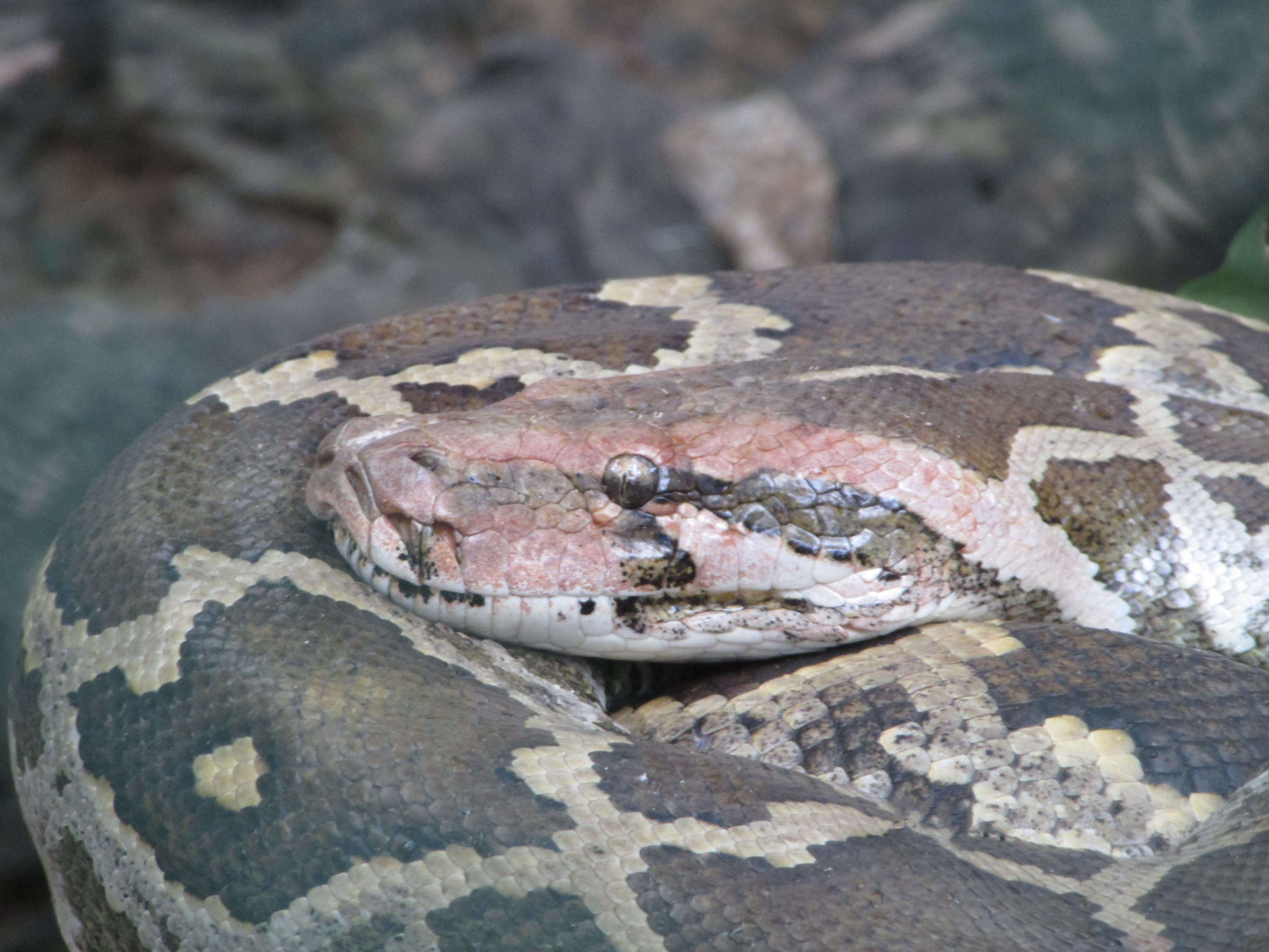 Indian rock python in Bannerughatta Biological park Bangalore Karnataka, India.